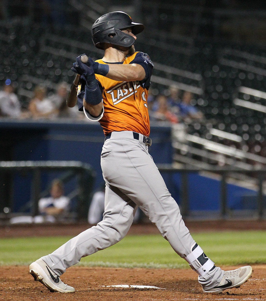 Seth Brown batting for the Las Vegas Aviators against the Omaha Storm Chasers in 2019